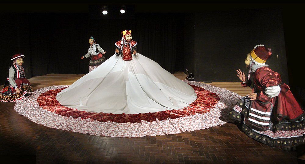 Scene from the play, A Mulher que Comeu o Mundo (The Woman Who Ate the World), by a theatre group in Porto Alegre.